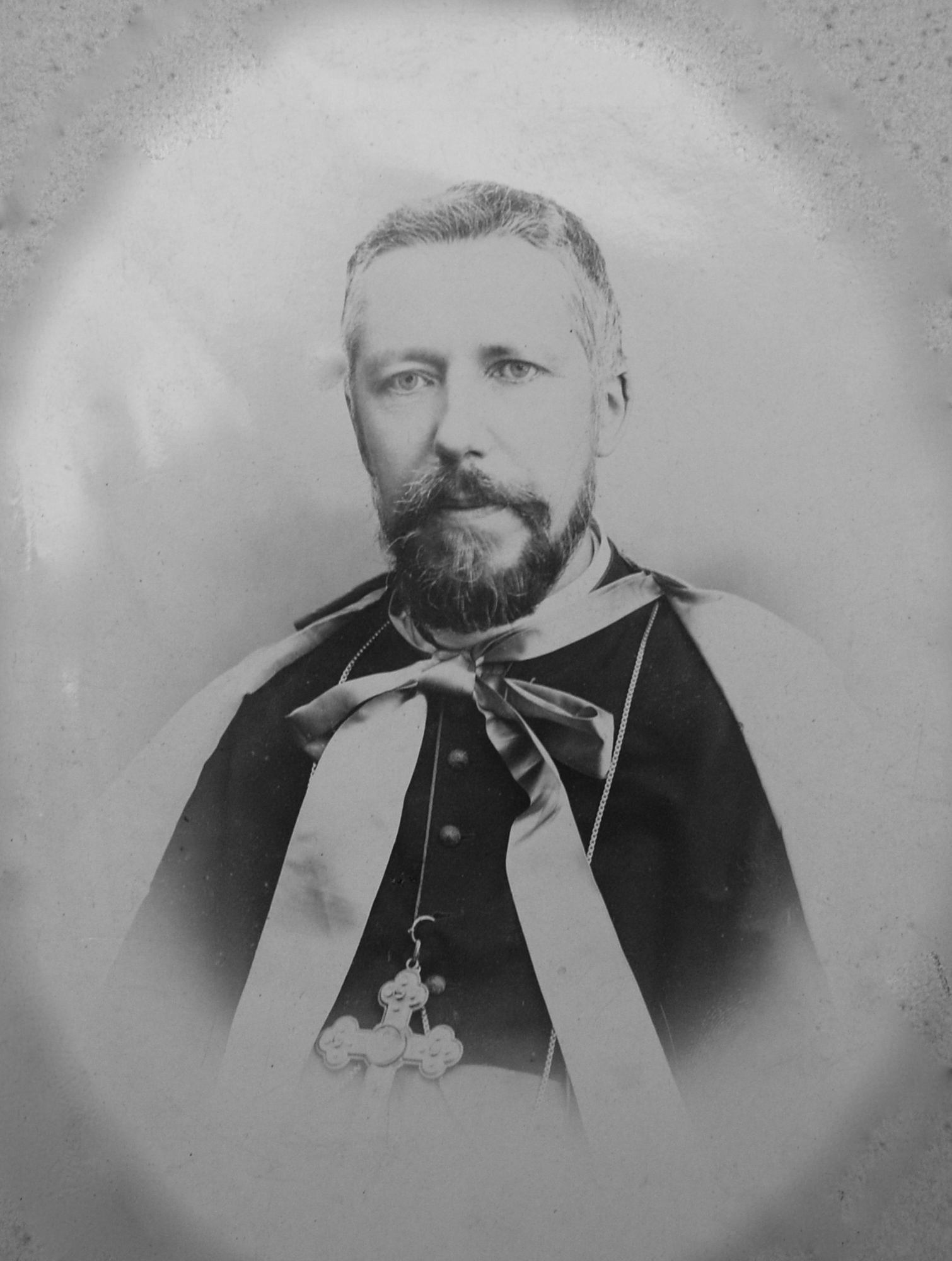 Father Joseph Van Reeth sj (1843-1923), Bishop of Galle (Sri Lanka)